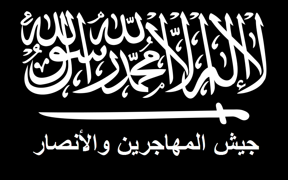 The flag of Jaish al-Muhajireen wal-Ansar, a foreign jihadist group part of the al-Nusra Front.